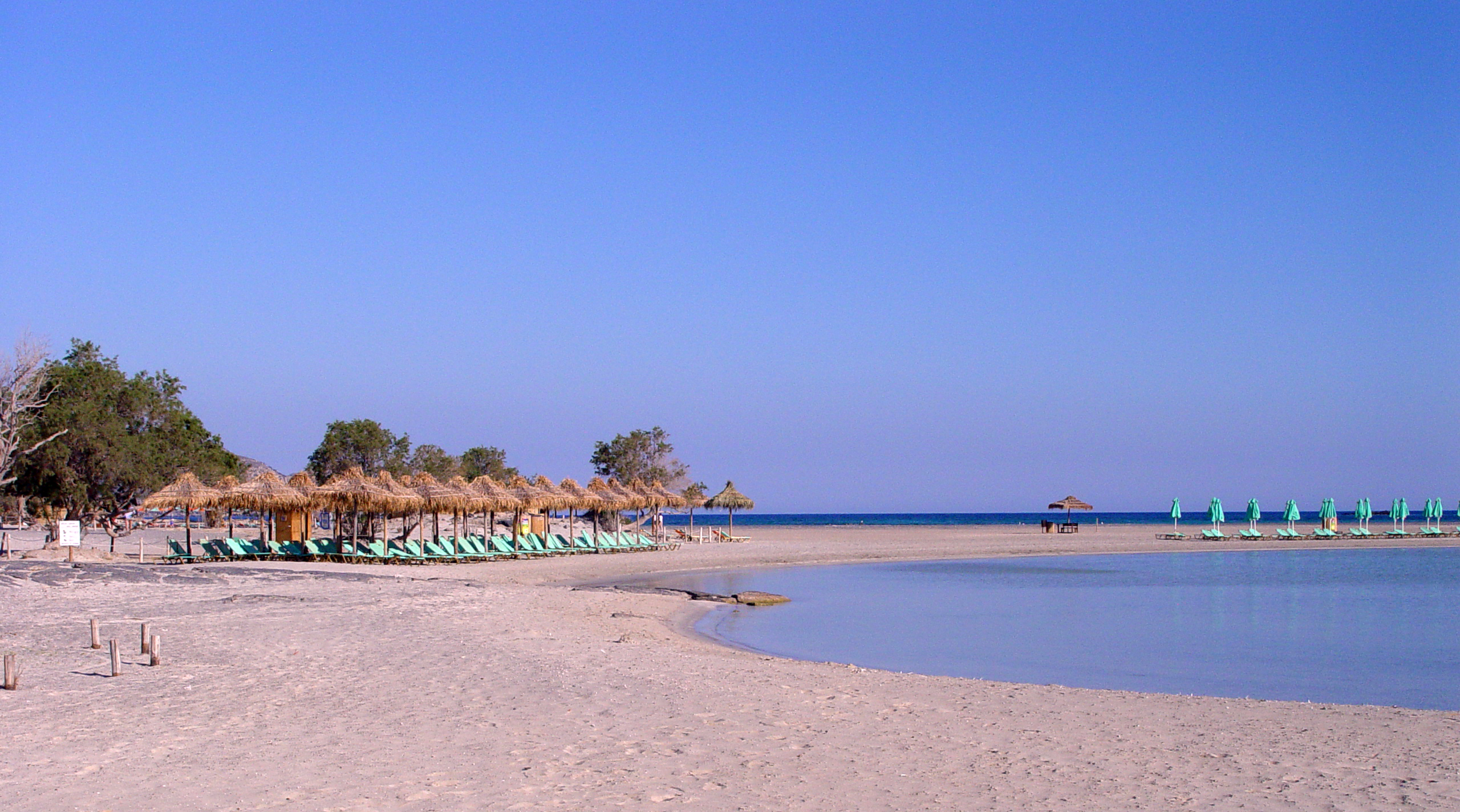 Greece, Crete, beach of Elafanissos